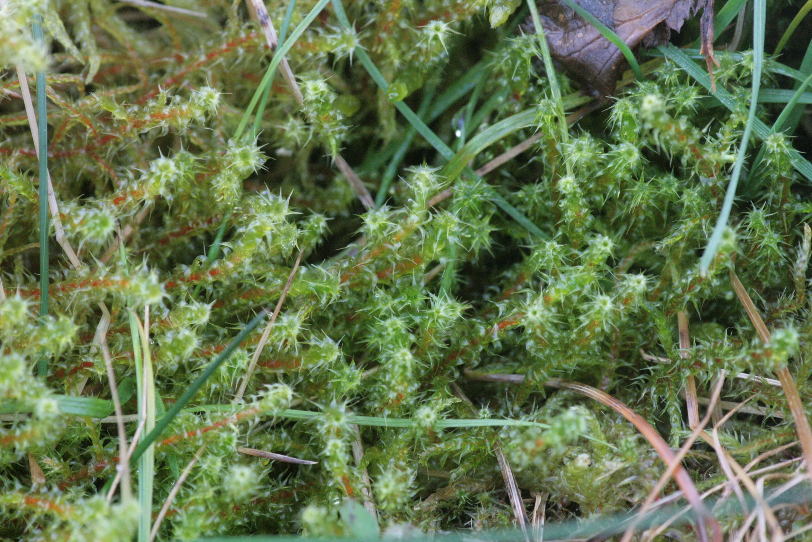 Rhytidiadelphus squarrosus